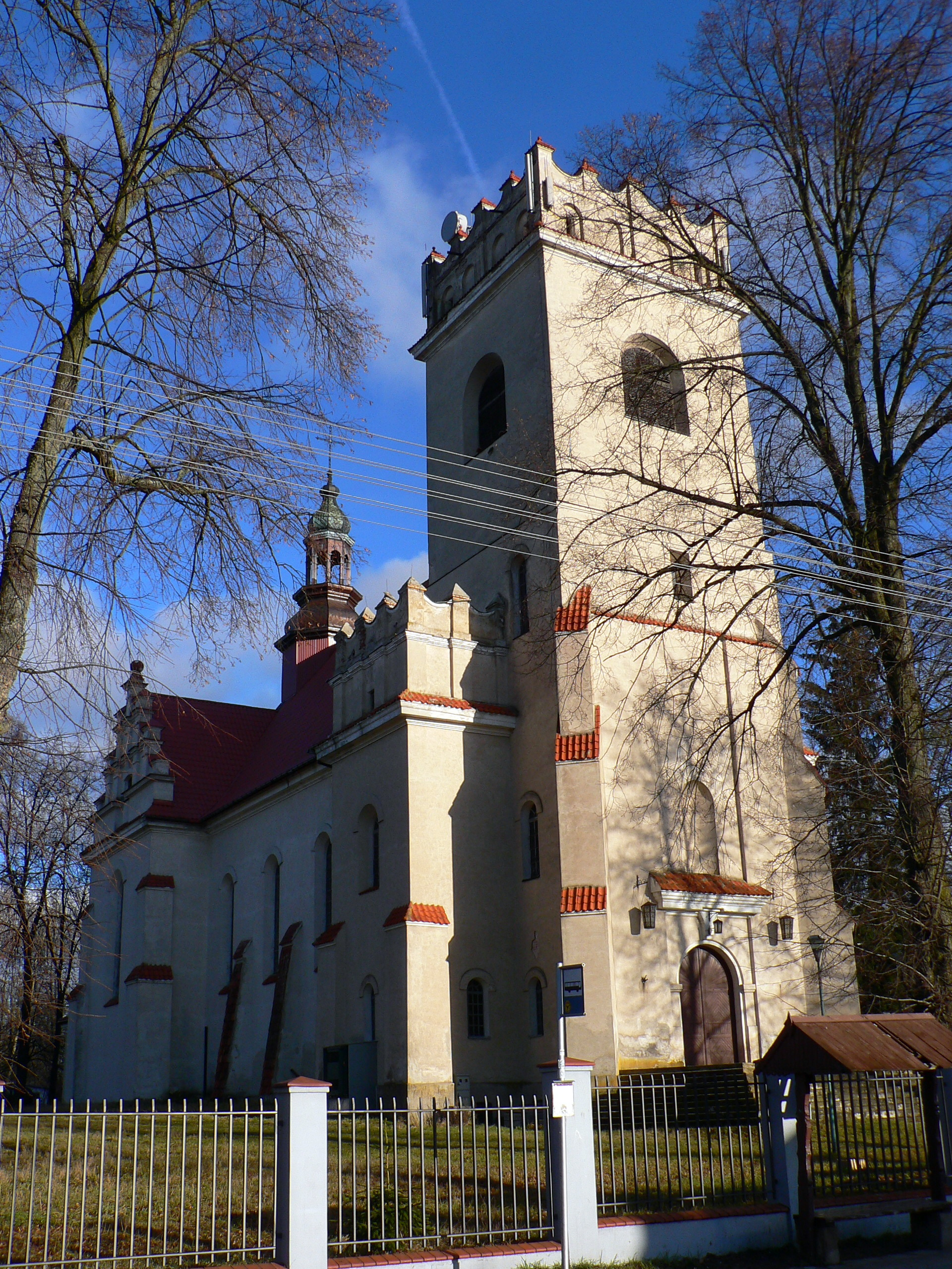 Roman Catholic church in Białowieża, Poland